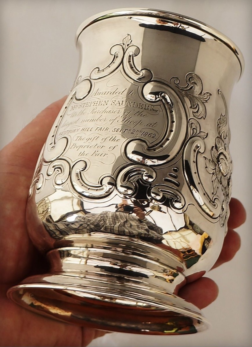 Georgian silver tankard by Thomas Pratt & Arthur Humphries later engraved in 1862 as an agricultural sheep trophy and with other post-Georgian decorations. Inscription reads "Awarded to MR. STEPHEN SAUNDERS as the Purchaser of the largest number of Sheep at WESTBURY HILL FAIR . SEPTR. 2ND. 1862. The gift of the Proprietor of the Fair".